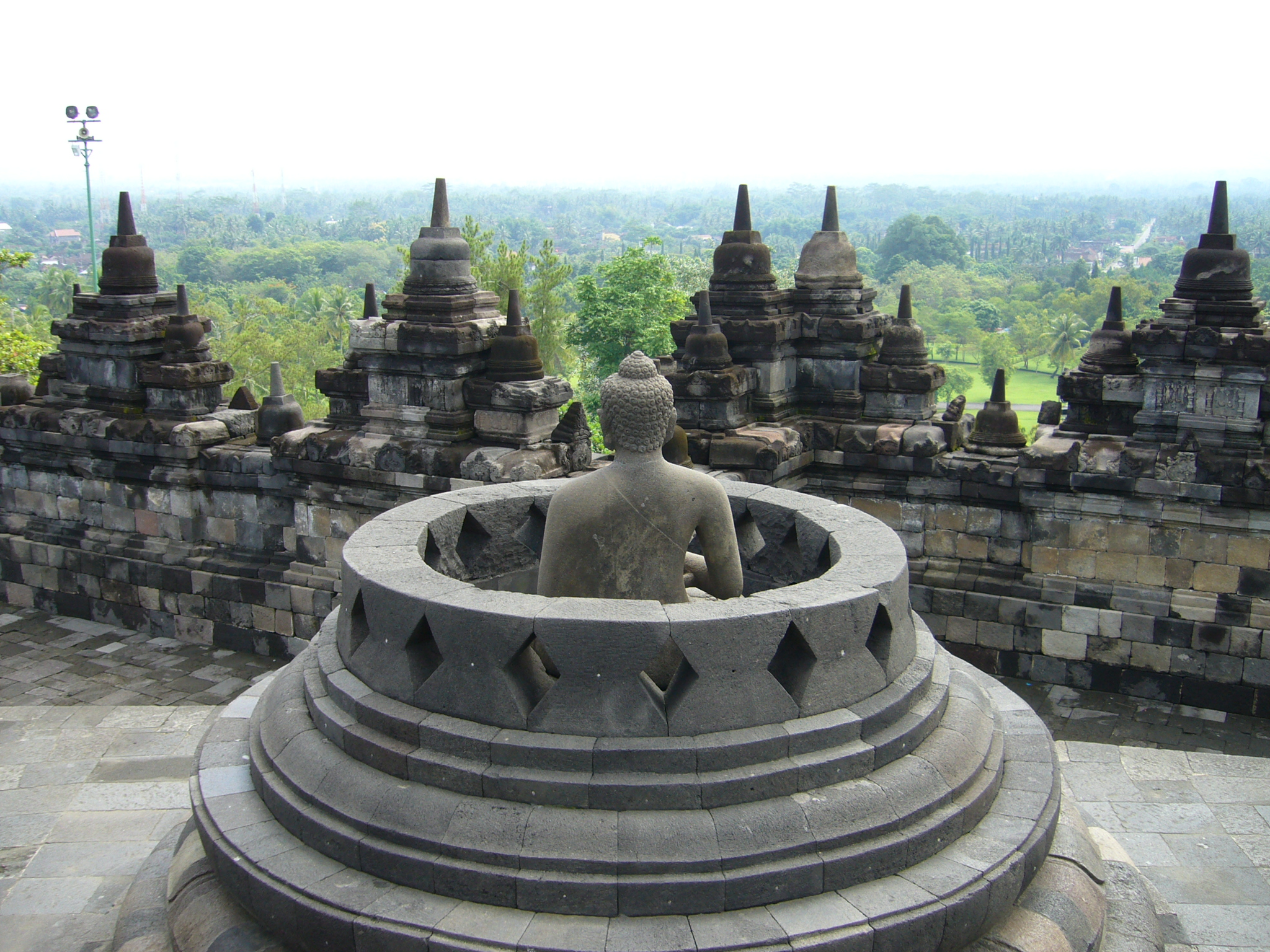 Borobudur Temple Compounds (Indonesia)